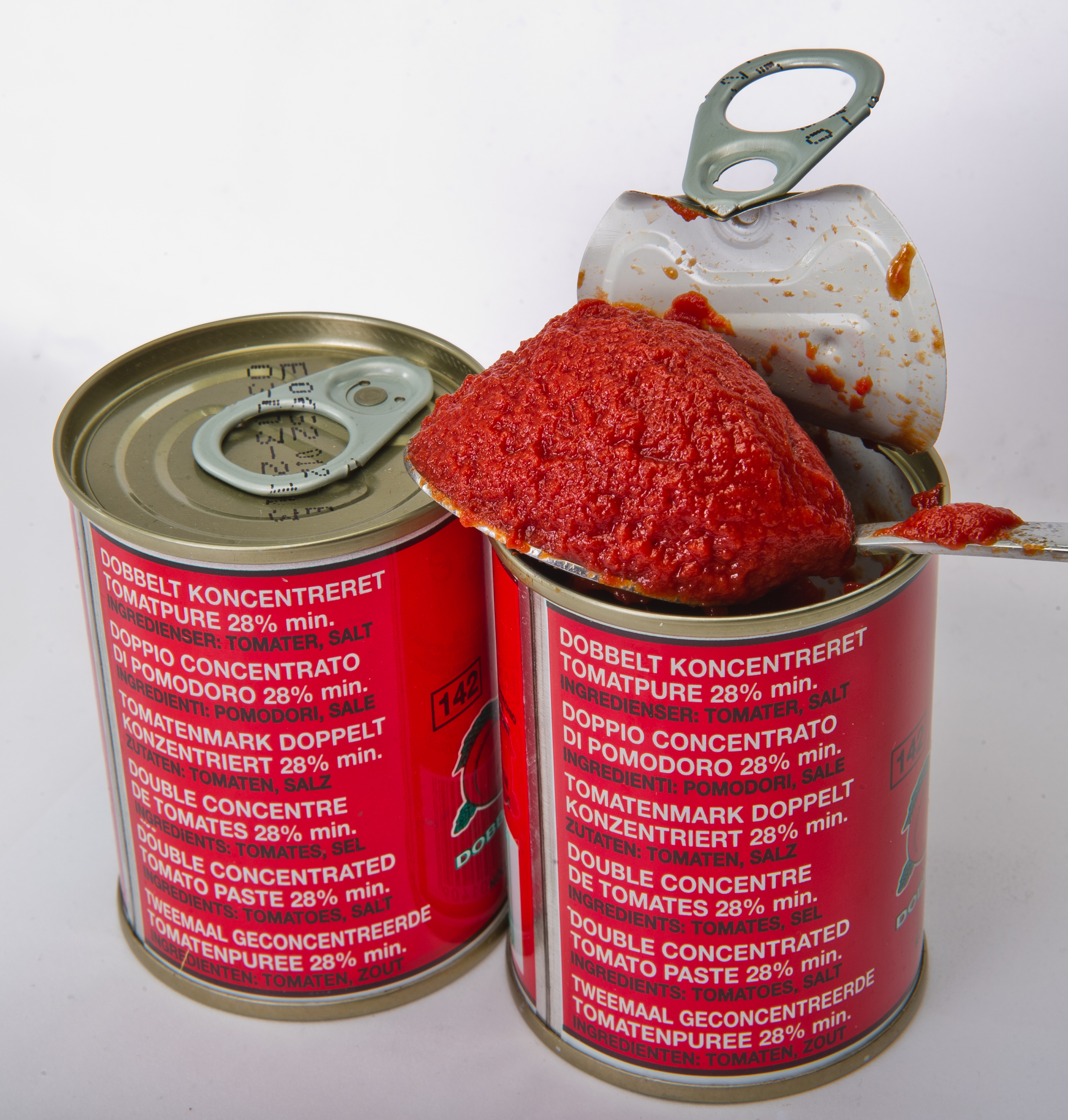 To cans of tomato purée. One is open showing the product. The cans have multilingual description saying "Double concentrate tomato paste 28% min." in six different languages.